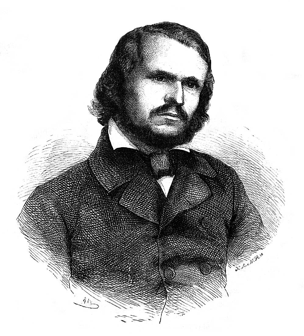 caption: "Adolf Schults."